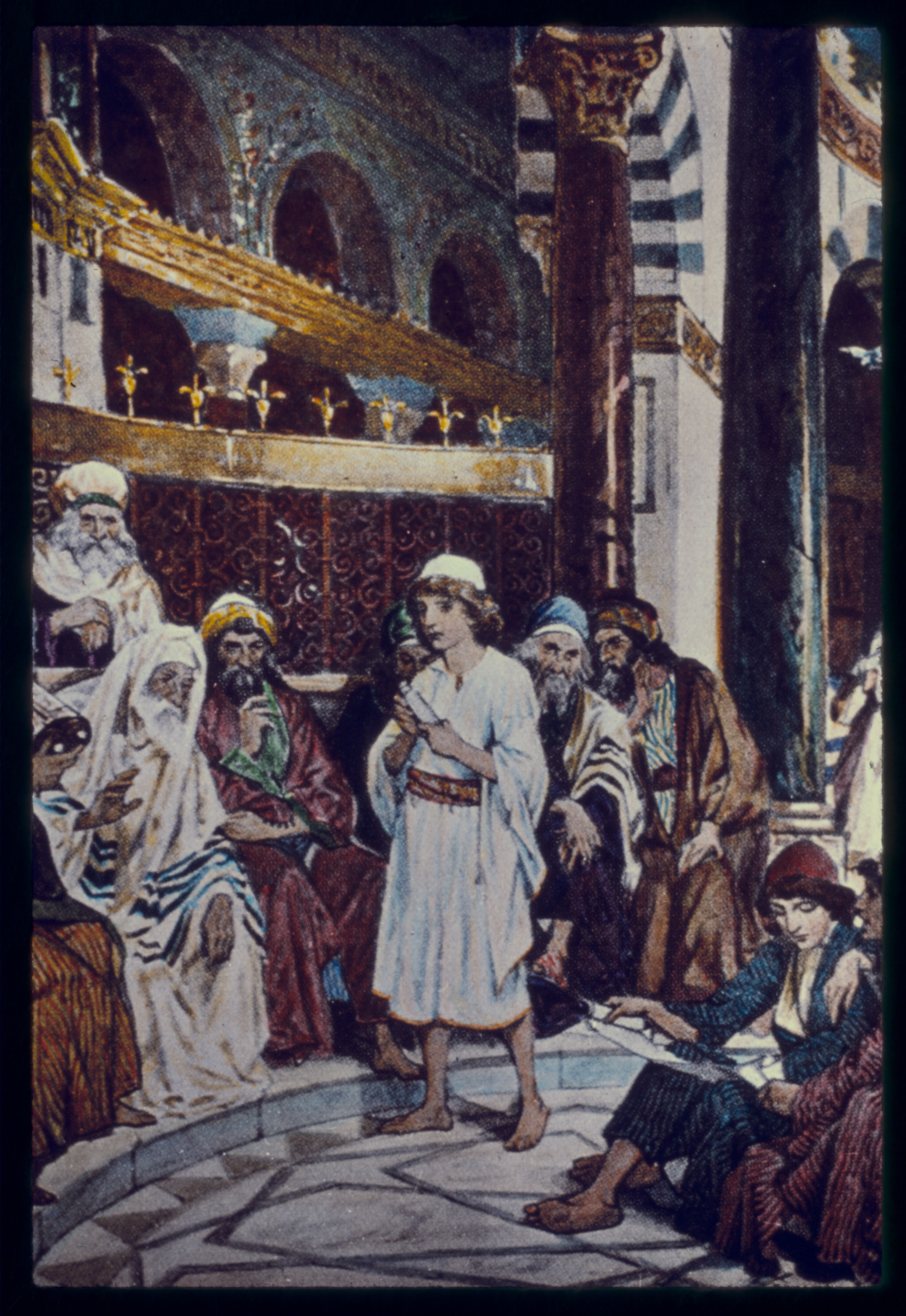 Title: Luke 2:41-50. Jesus goeth up with his parents to the Passover at the age of twelve years; and tarreith behind the temple, seeking instruction from the doctors of the law Abstract/medium: G. Eric and Edith Matson Photograph Collection Physical description: 1 slide